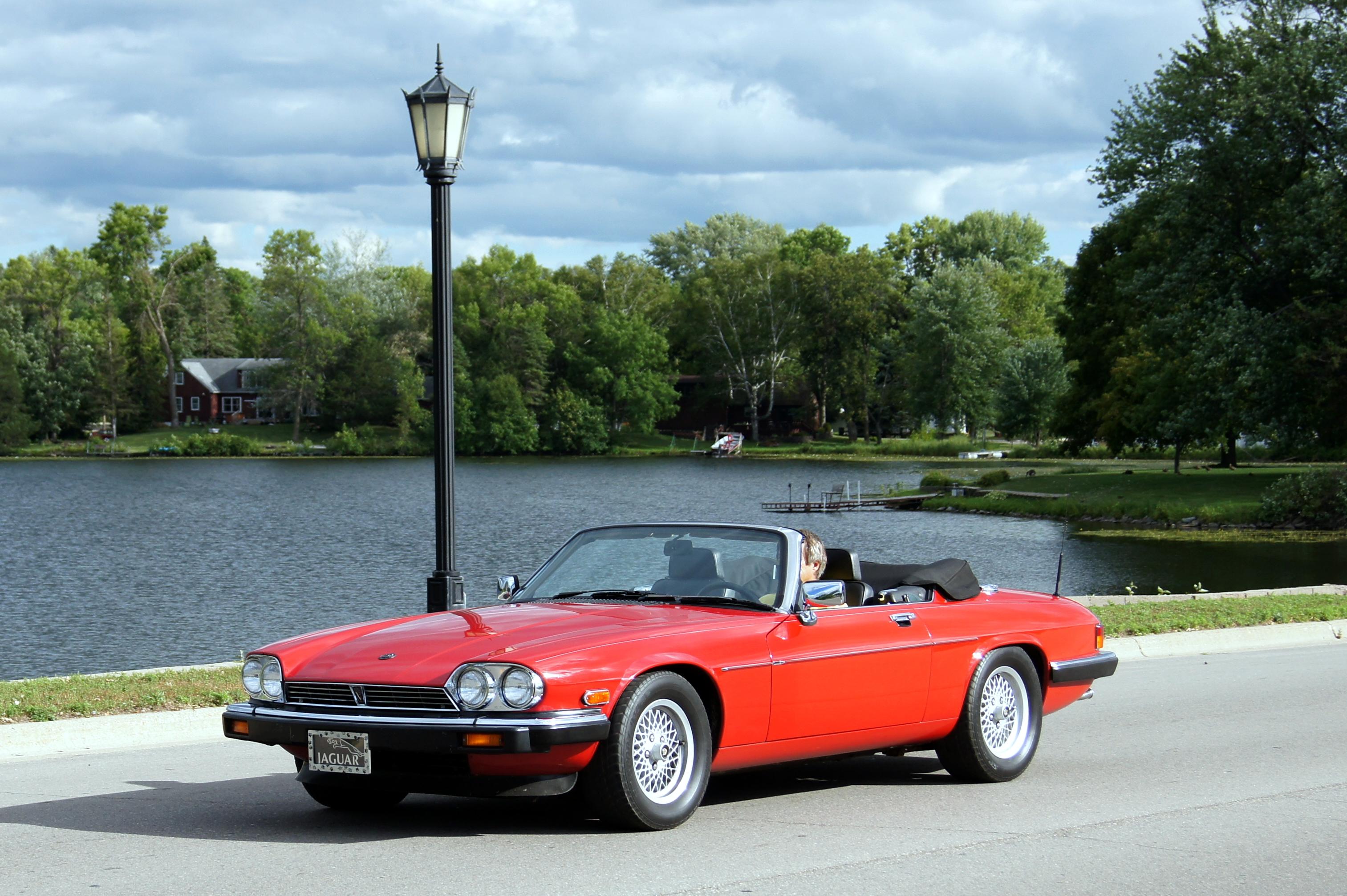 27th Annual New London to New Brighton Antique Car Run Automobile Parade through New London. The night before the Antique Car Run begins. More Car Pictures